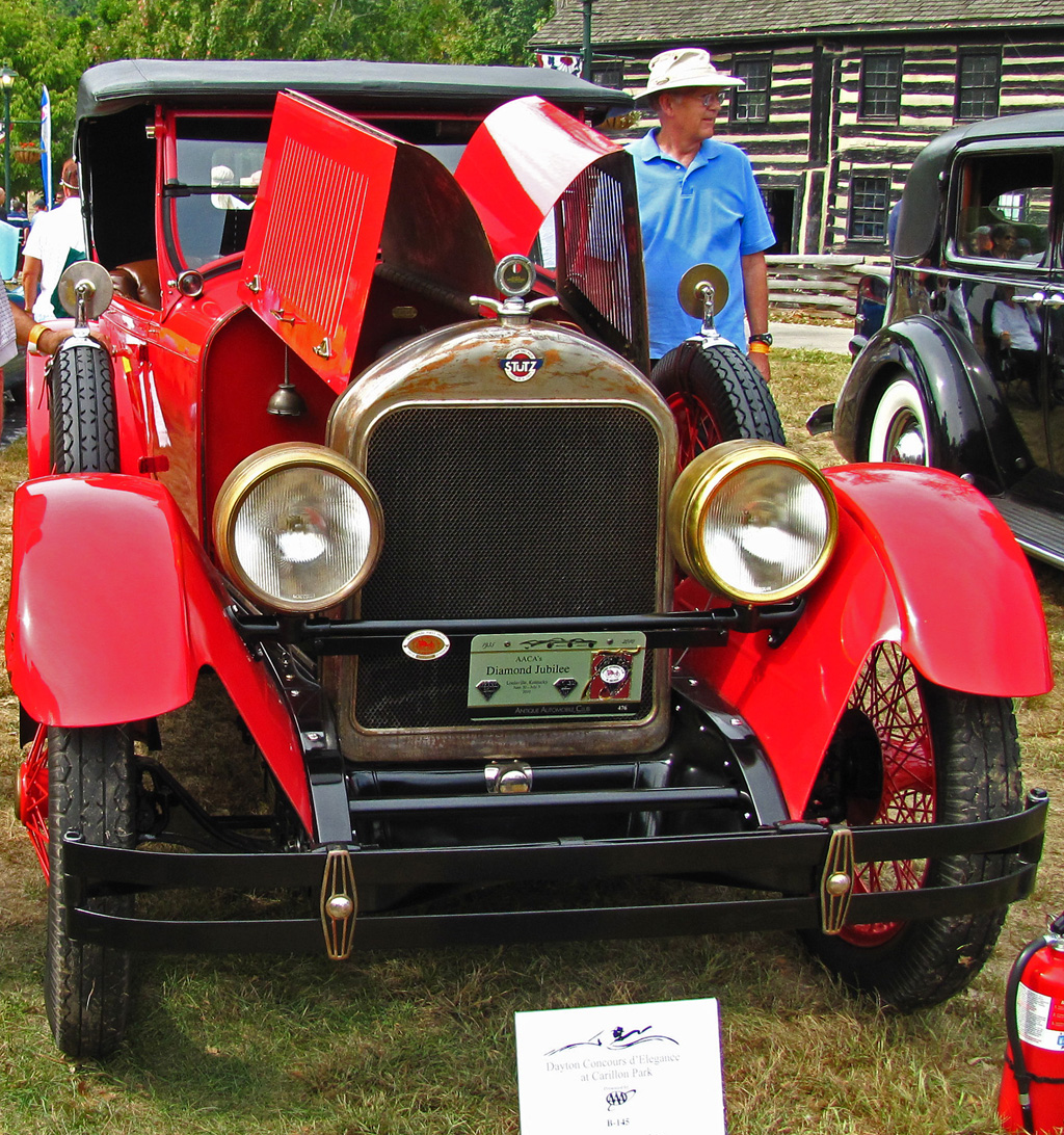 1925 Stutz automobile. Seen at the 2010 Dayton Concours d'Elegance.